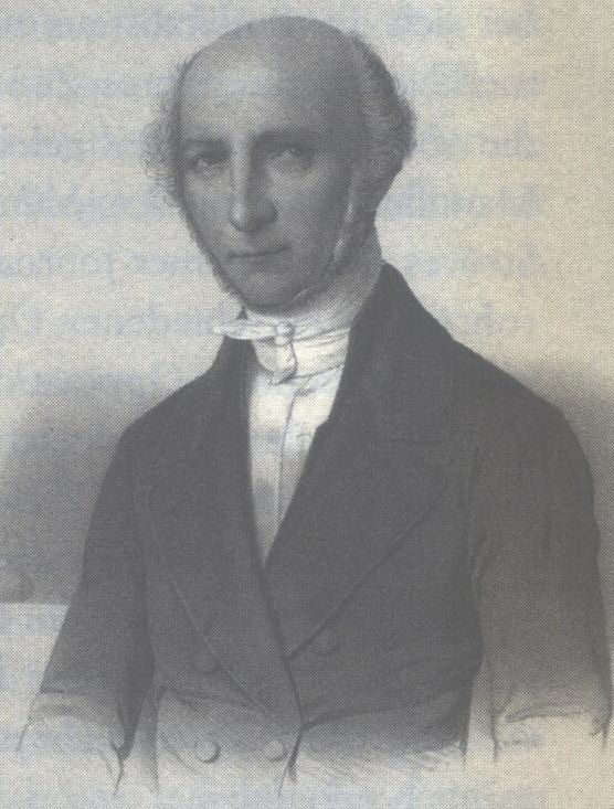 Johann Baptist Bekk, politician and jurist of Baden